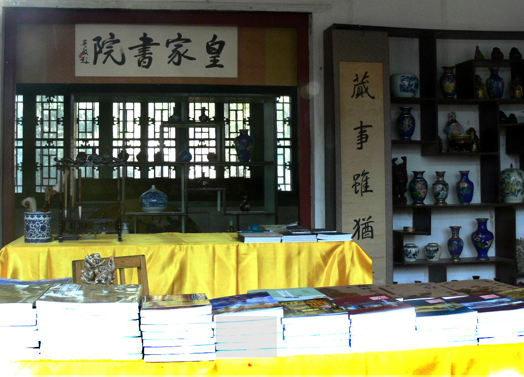 Wenjinge Imperial Library Interior 文津阁皇家书院